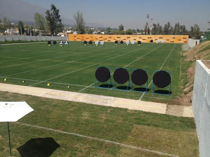 Chilean National Archery Center at Peñalolen, Santiago, Chile